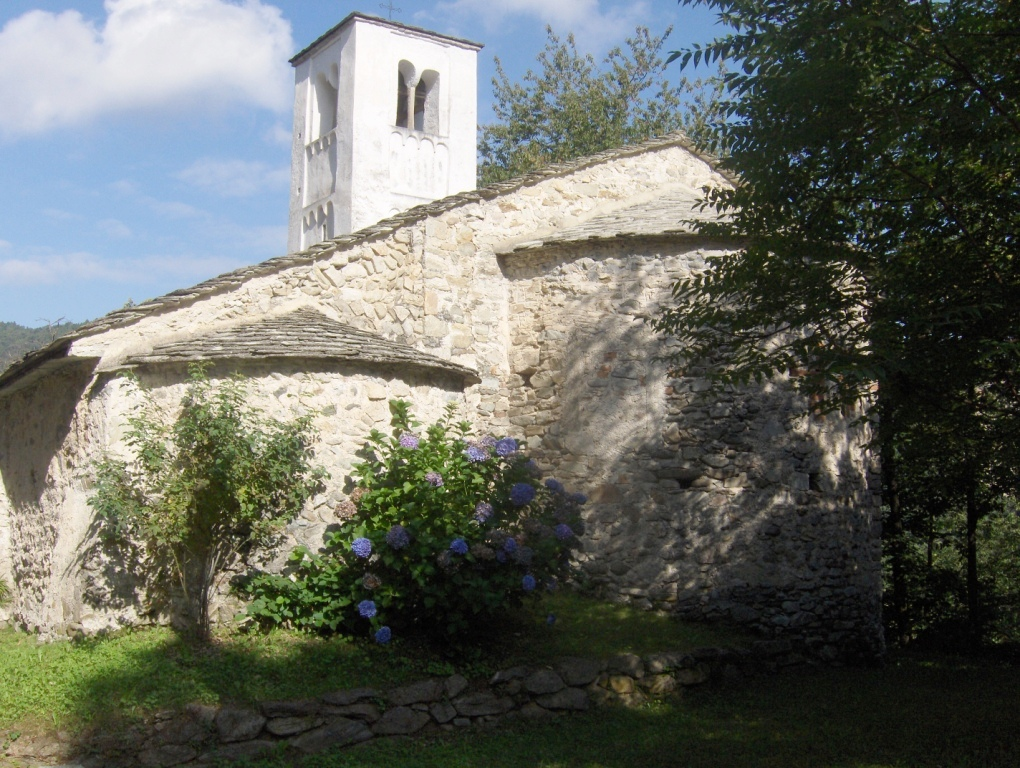 rear wiew